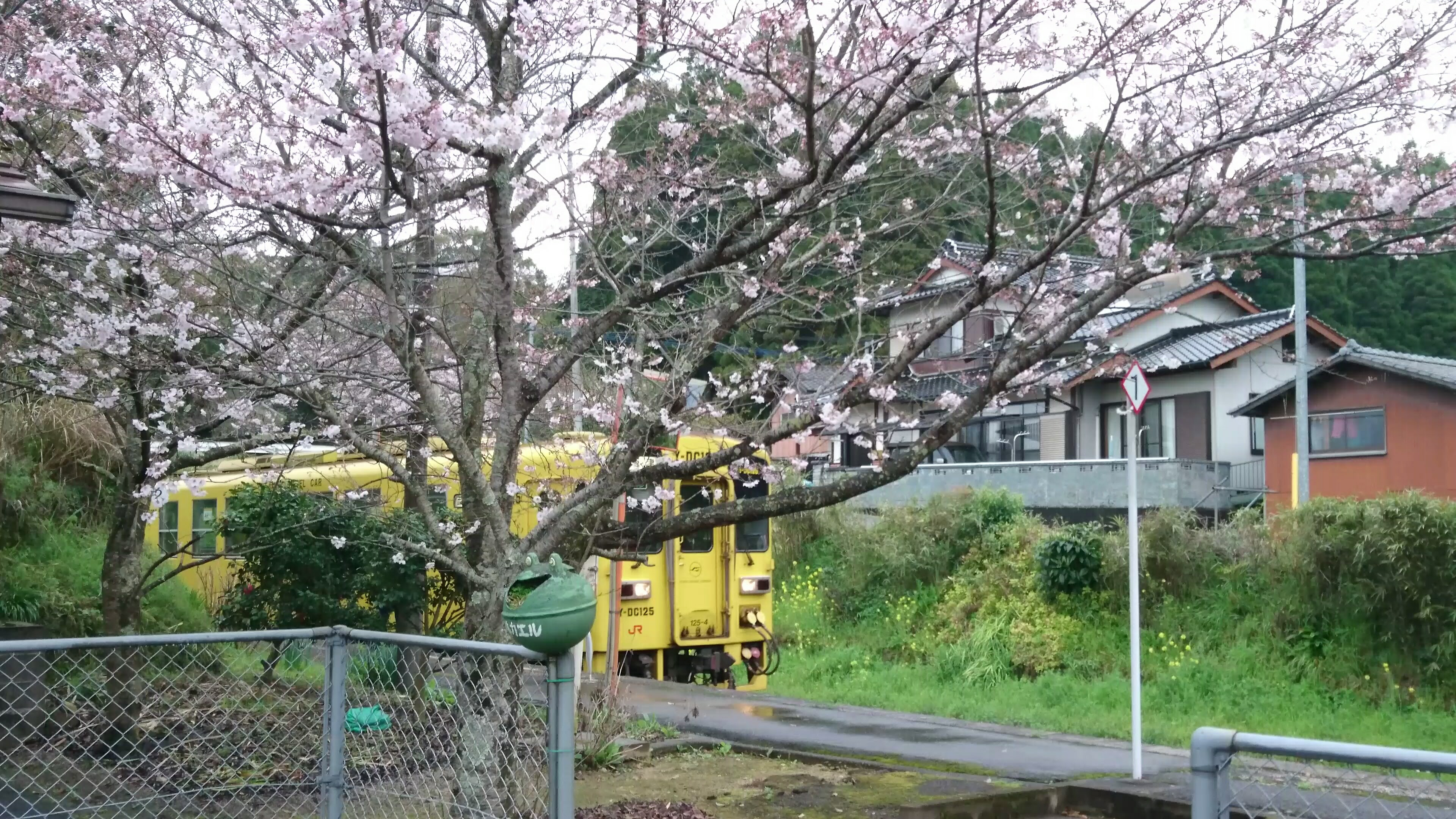 Hizen-Kubo Station